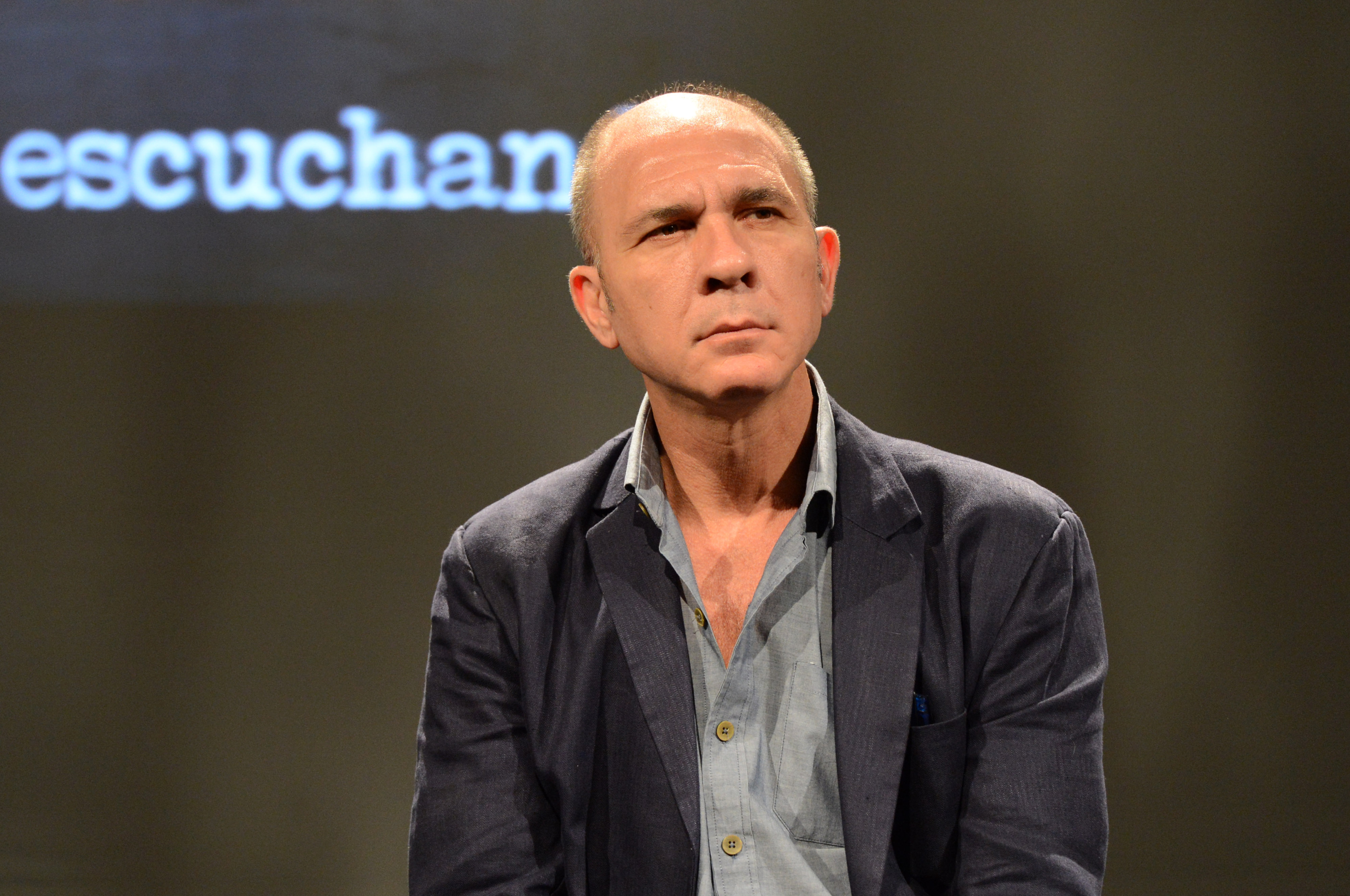 Darío Grandinetti. Presentación En terapia 3ra temporada. 20.10.2014. Foto TVP 2014